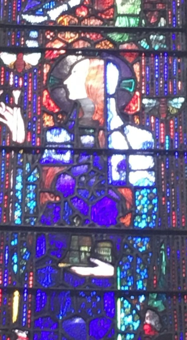 St Gobnait window, Harry Clarke, Honan Chapel, Cork